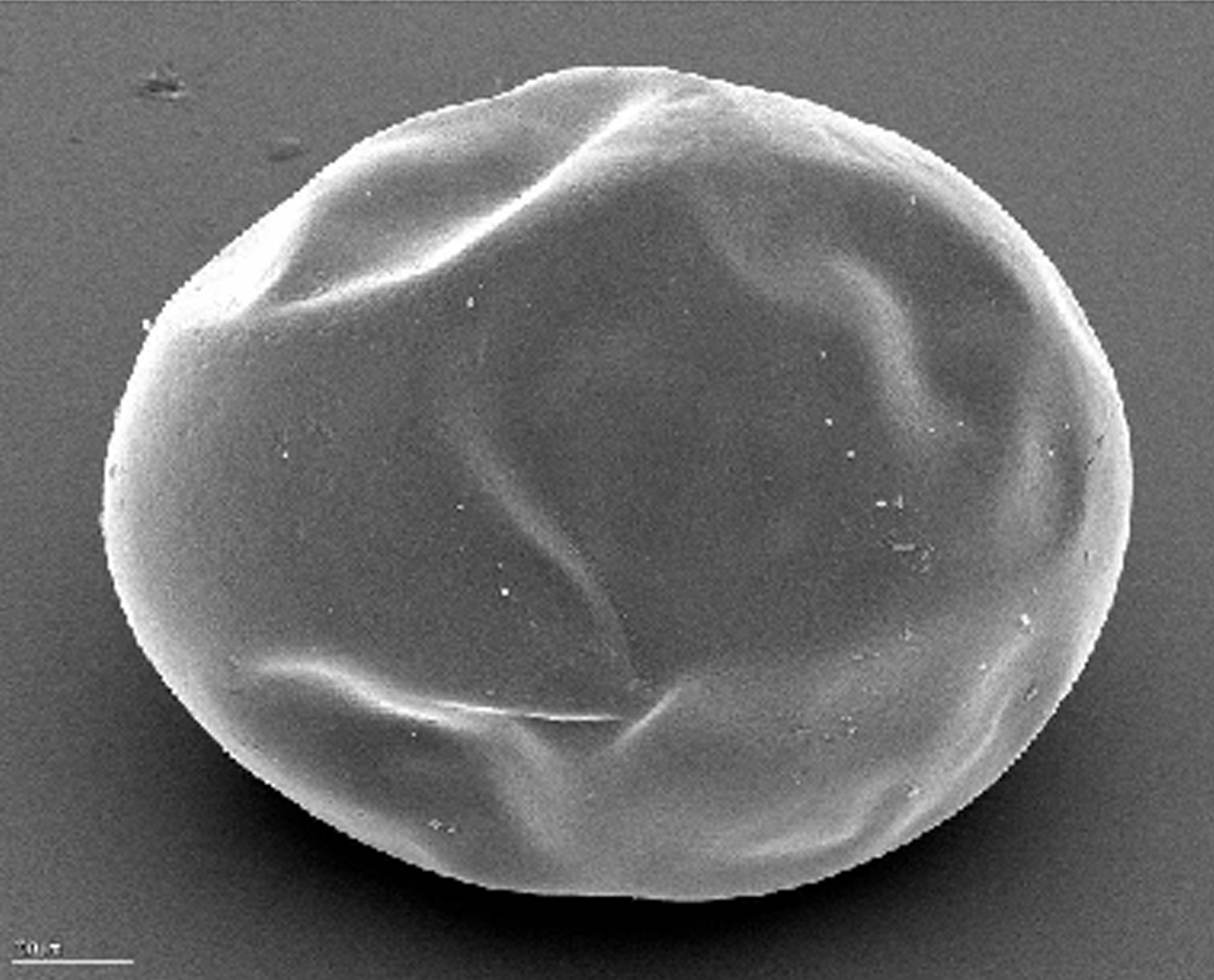 SEM image of Milnesium tardigradum in early embryonic state.